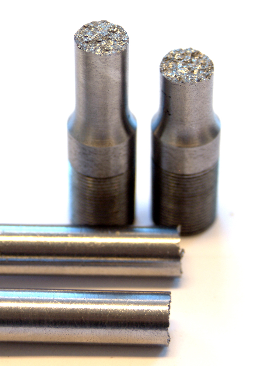 Fractured tensile test specimen of a nodular graphite cast iron. This specimens failed by brittle failure, as seen from the lack of plastic deformation. Note that nodular graphite cast irons are usually ductile, so this specimen is not representative for this class of alloys.